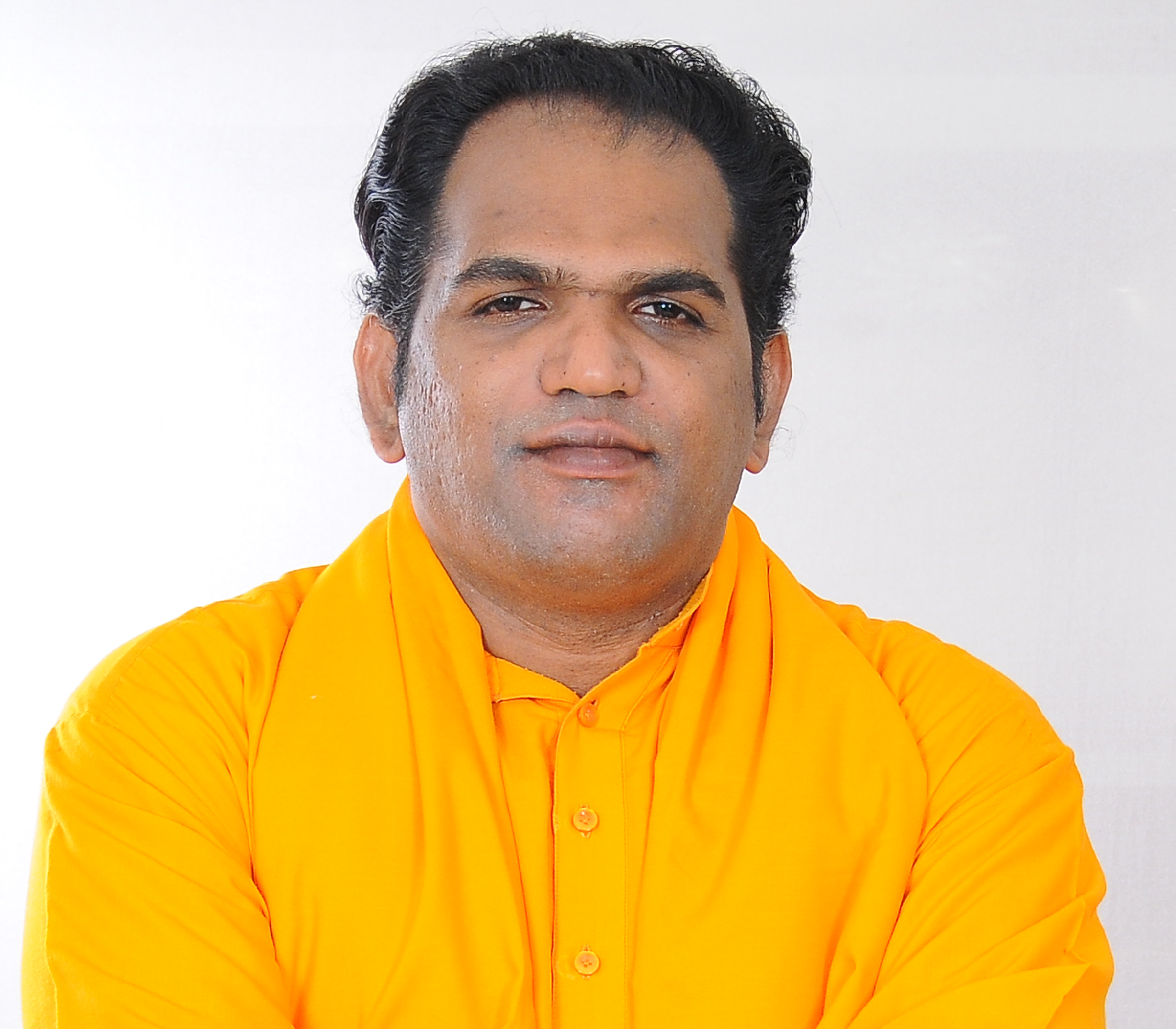 Swami Gururethnam Jnana Thapaswi has been functioning as the Organizing Secretary of Santhigiri Ashram.